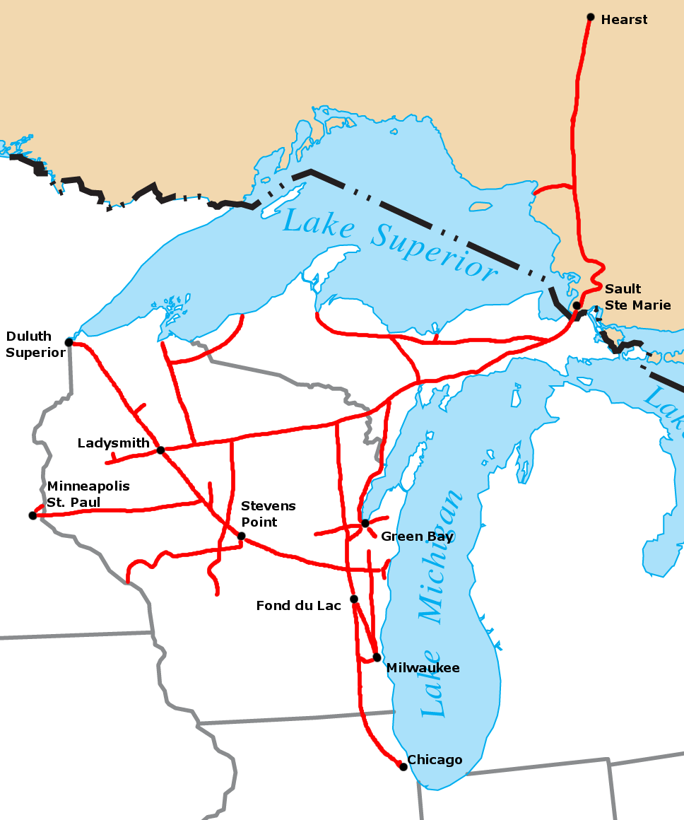 Route map of the Wisconsin Central Railroad operations in North America in 1998. Map created by Sean Lamb (User:Slambo), based on a map in the Wisconsin Central Railroad's 1998 Annual Report. Political boundaries cropped from Image:US_state_outline_map.png, railroad route and city locations and names added using the GIMP.